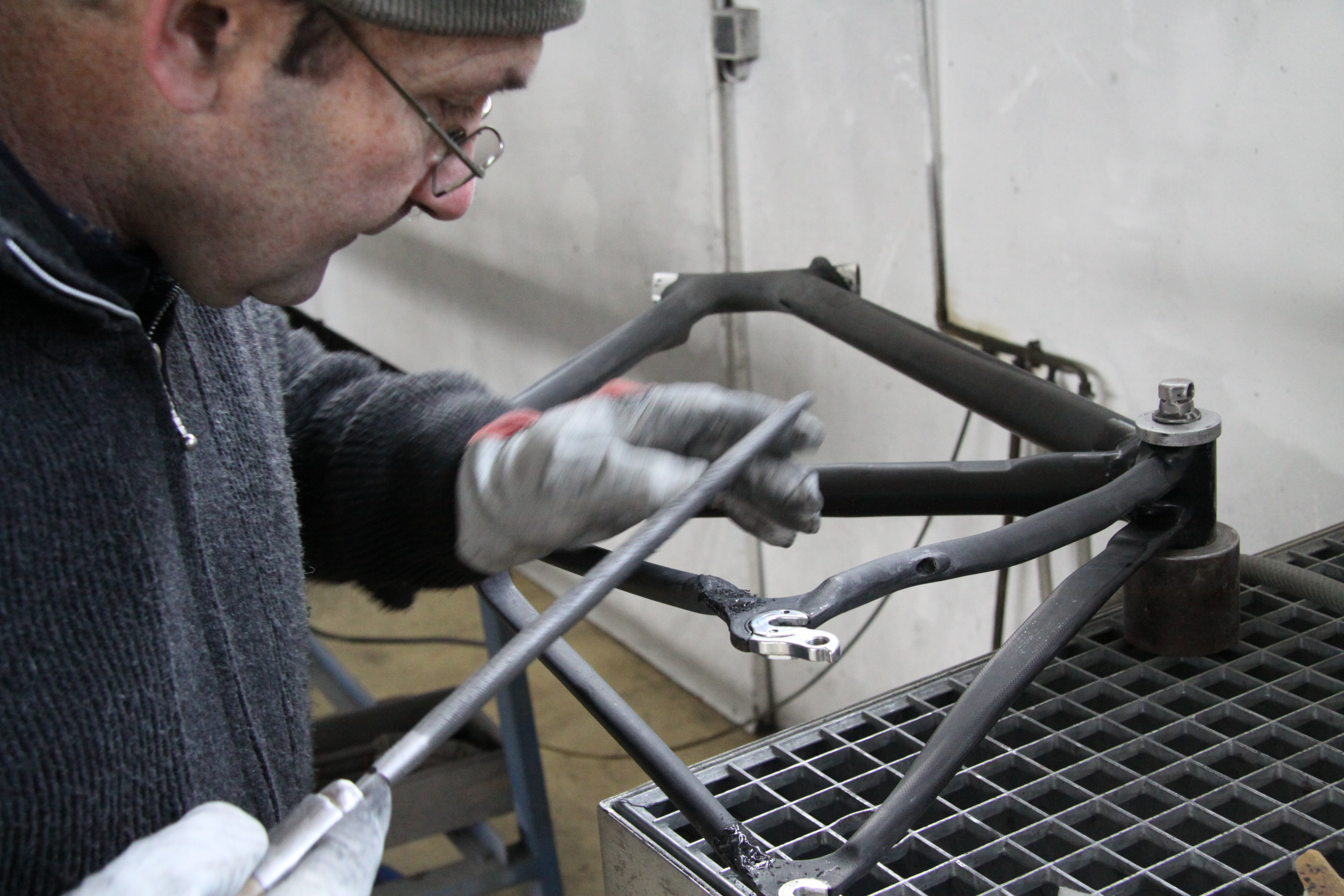 A Cyfac bicycle during the manufacturing process